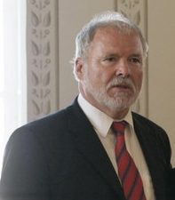 Harald Ringstorff, President of the German State of Mecklenburg-Western Pomerania, during the G8 summit on June 7, 2007.